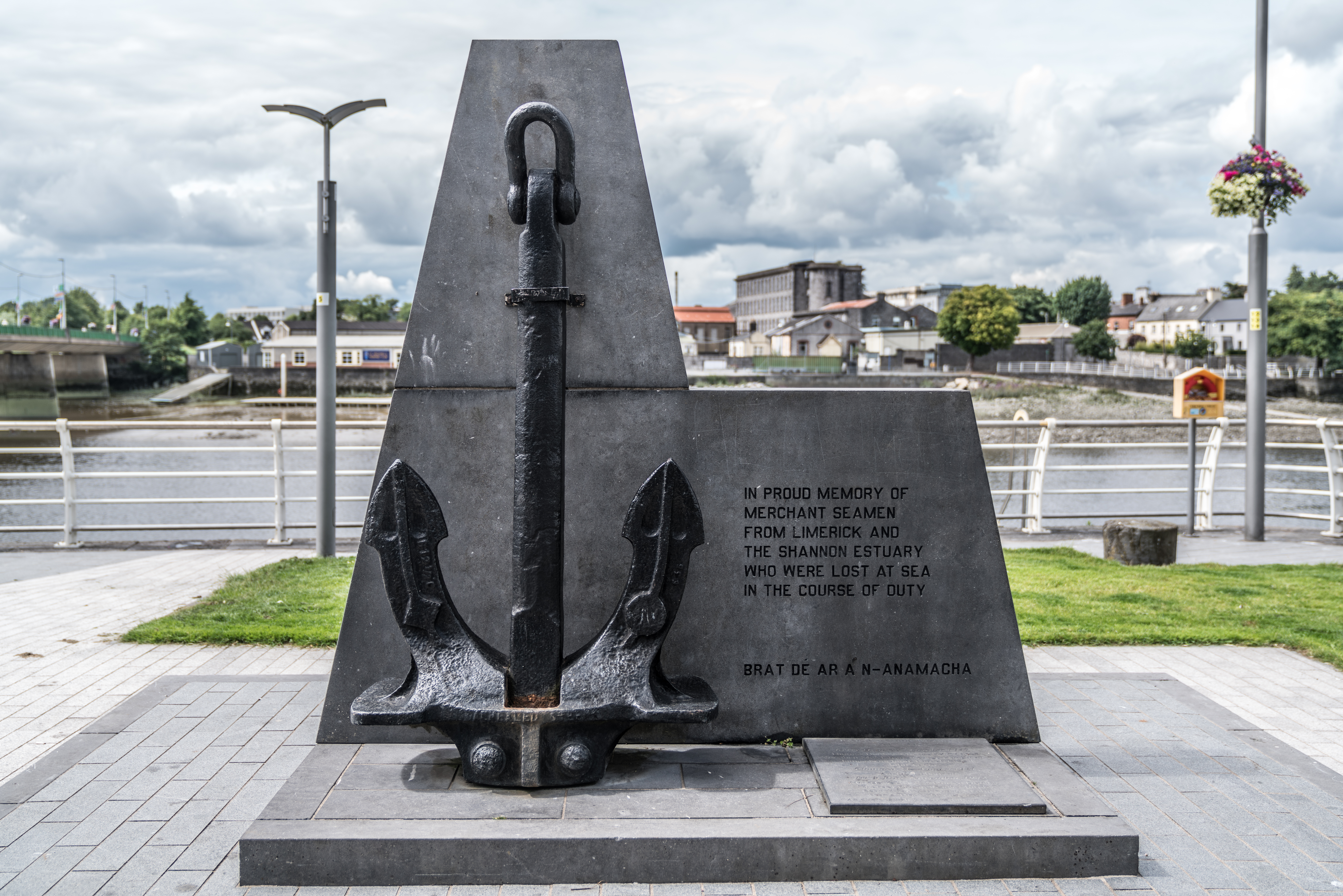 The Limerick Seaman’s Memorial statue is now dedicated to the Limerick and Clare men who lost their lives on three Irish merchant ships: SS Kerry Head, SS Irish Pine and SS Clonlara at sea during World War Two. Although Ireland remained neutral during the World World Two, Ireland's ships were still attacked as they were mistaken to be British/Allied. Originally this monument at Bishop's Quay in Limerick in was in remembrance of the lost Shannon Estuary seamen and it was not specific to wartime casualties. It's back is to the River Shannon and it is beside the Shannon Bridge. The main section of the memorial is in the shape of an anchor. There is a base rock which serves to outline and draw emphasis to the anchor itself. Written on this rock beside the monument there is a note explaining what the statue is commemorating. On the base of the statue is the list of men who died at sea during World War Two which was added in 2004. This was because their bodies were never recovered and the families of the men wanted them to be remembered in some way.